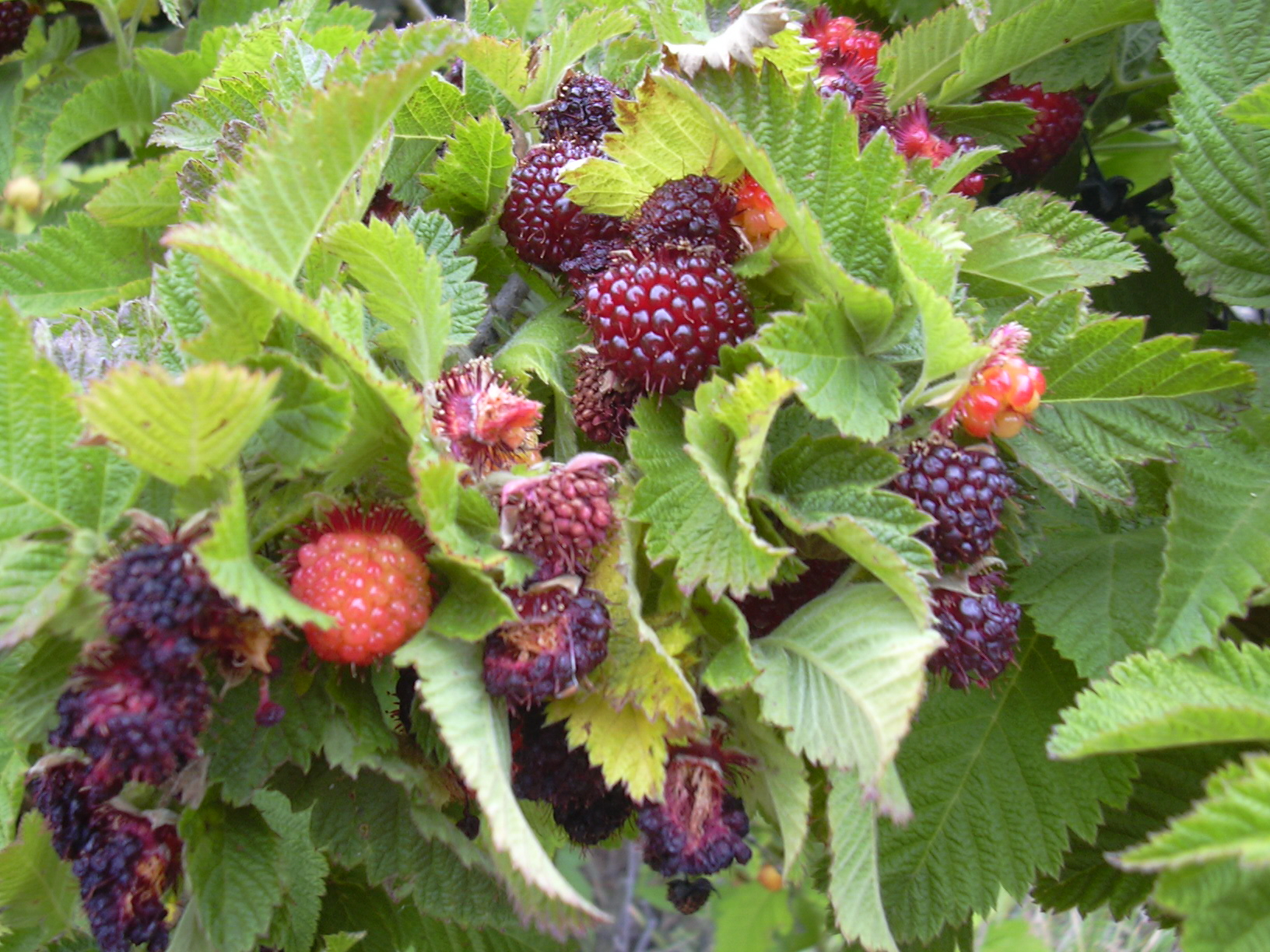 Rubus hawaiensis (fruit). Location: Hawaii, Puu Kole